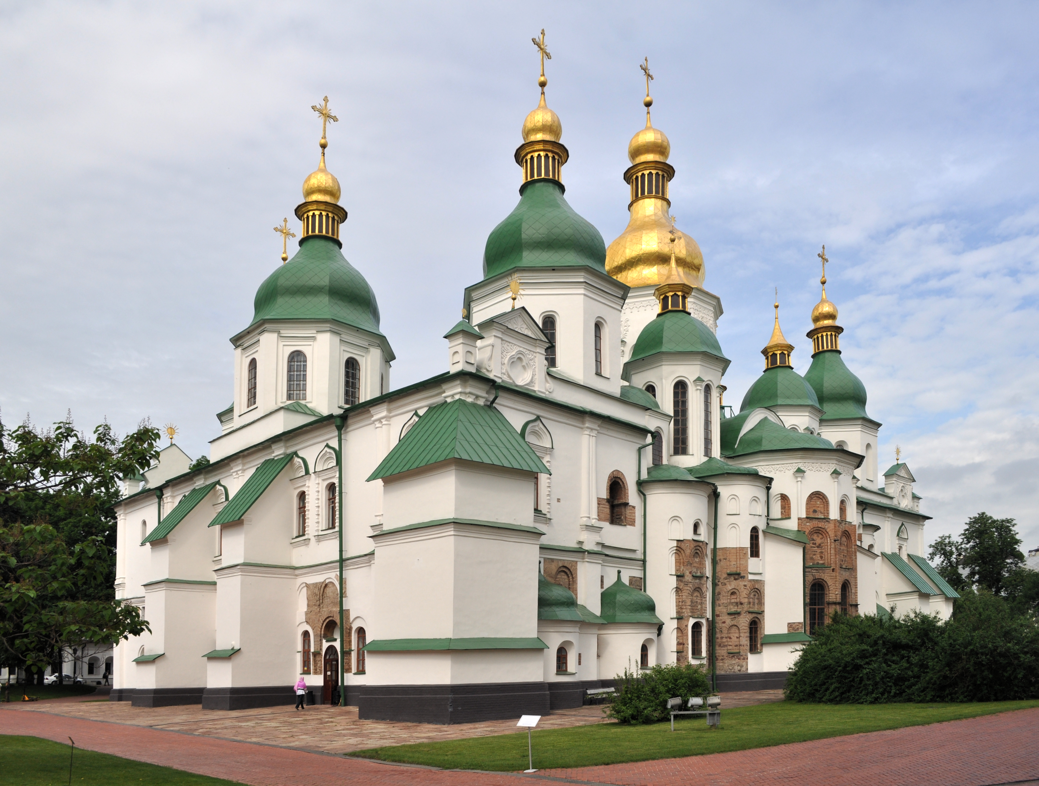 Saint Sophia Cathedral in Kiev